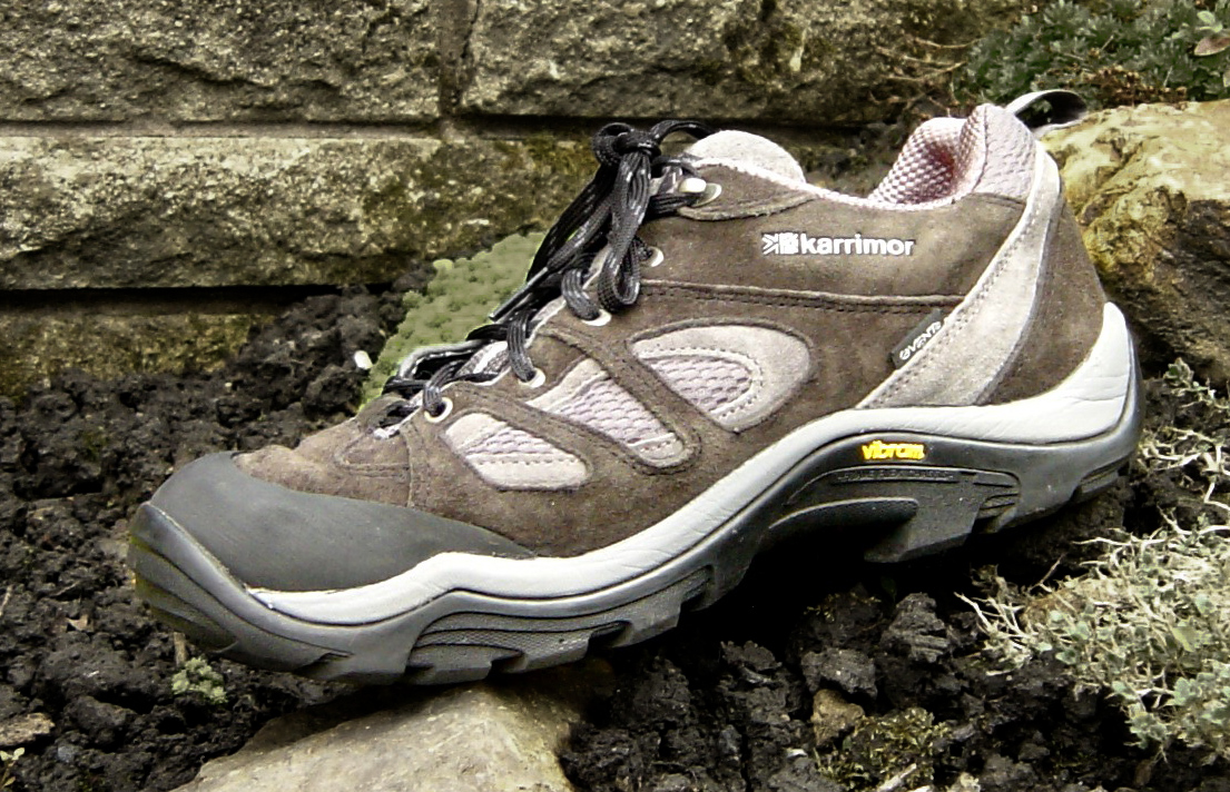 Karrimor shoes